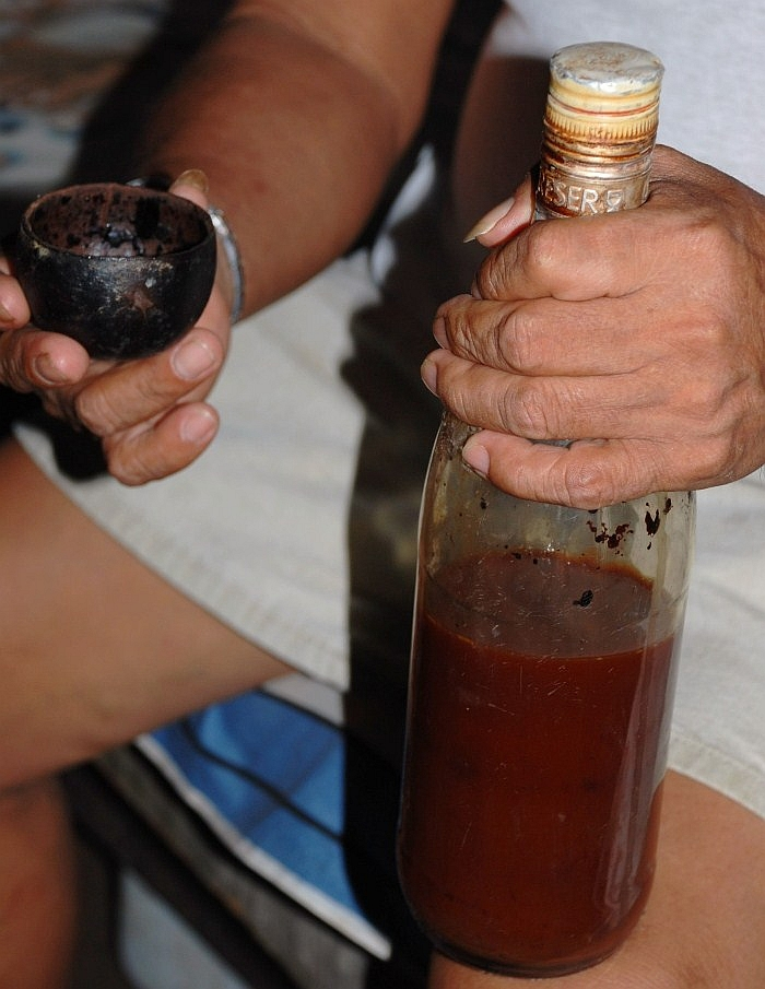 Peruvian Ayahuasca